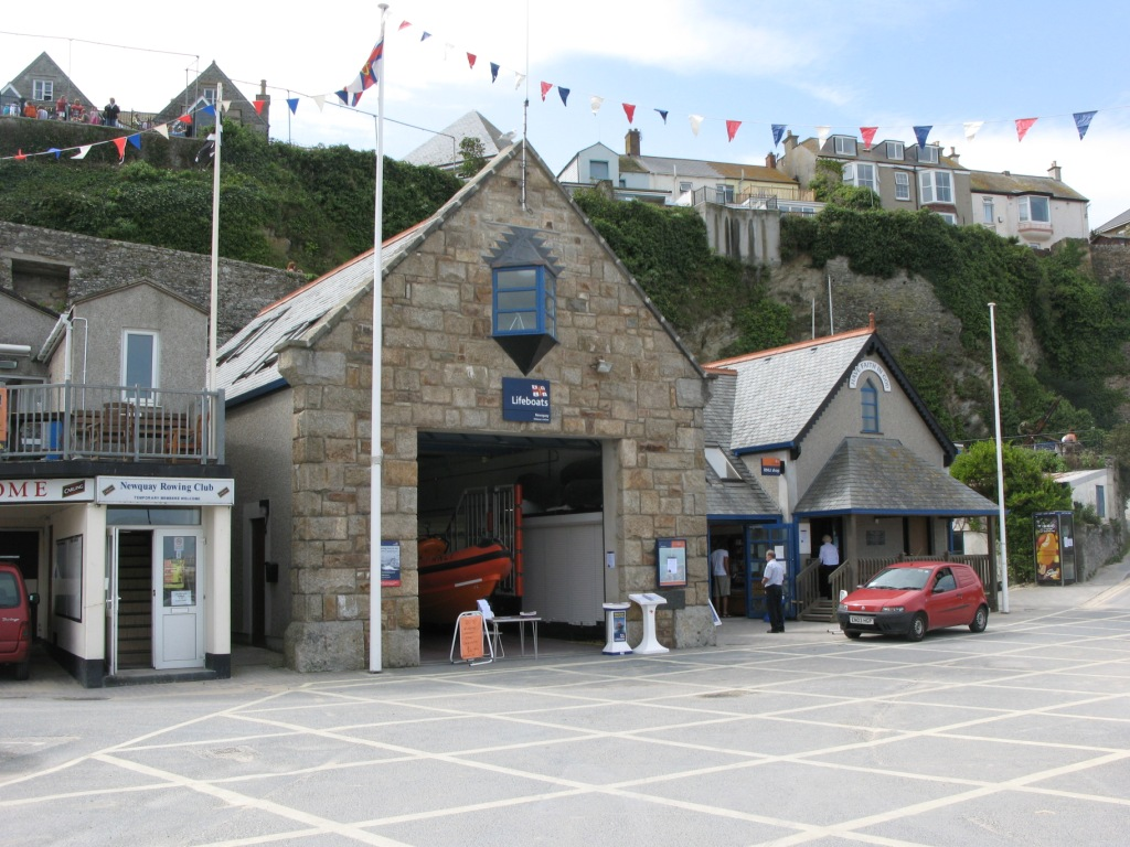 The lifeboat station at Newquay, Cornwall, in 2009.